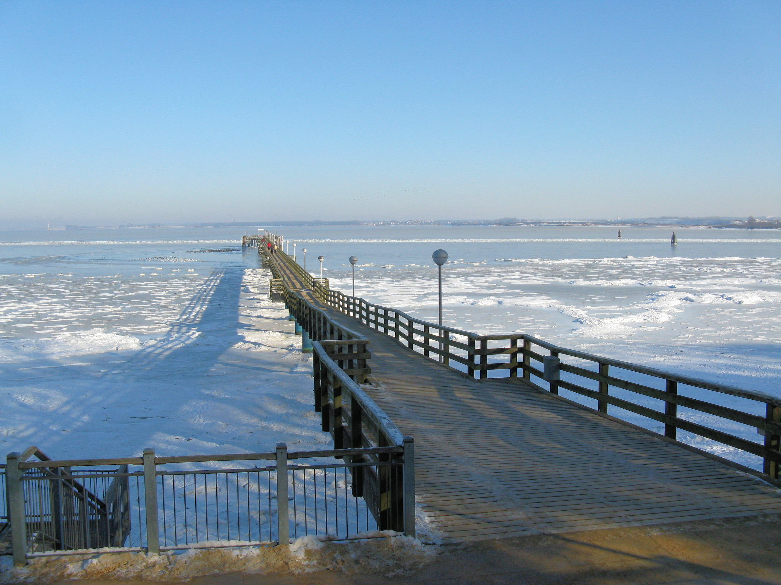 Pier in Wismar, Mecklenburg-Vorpommern, Germany